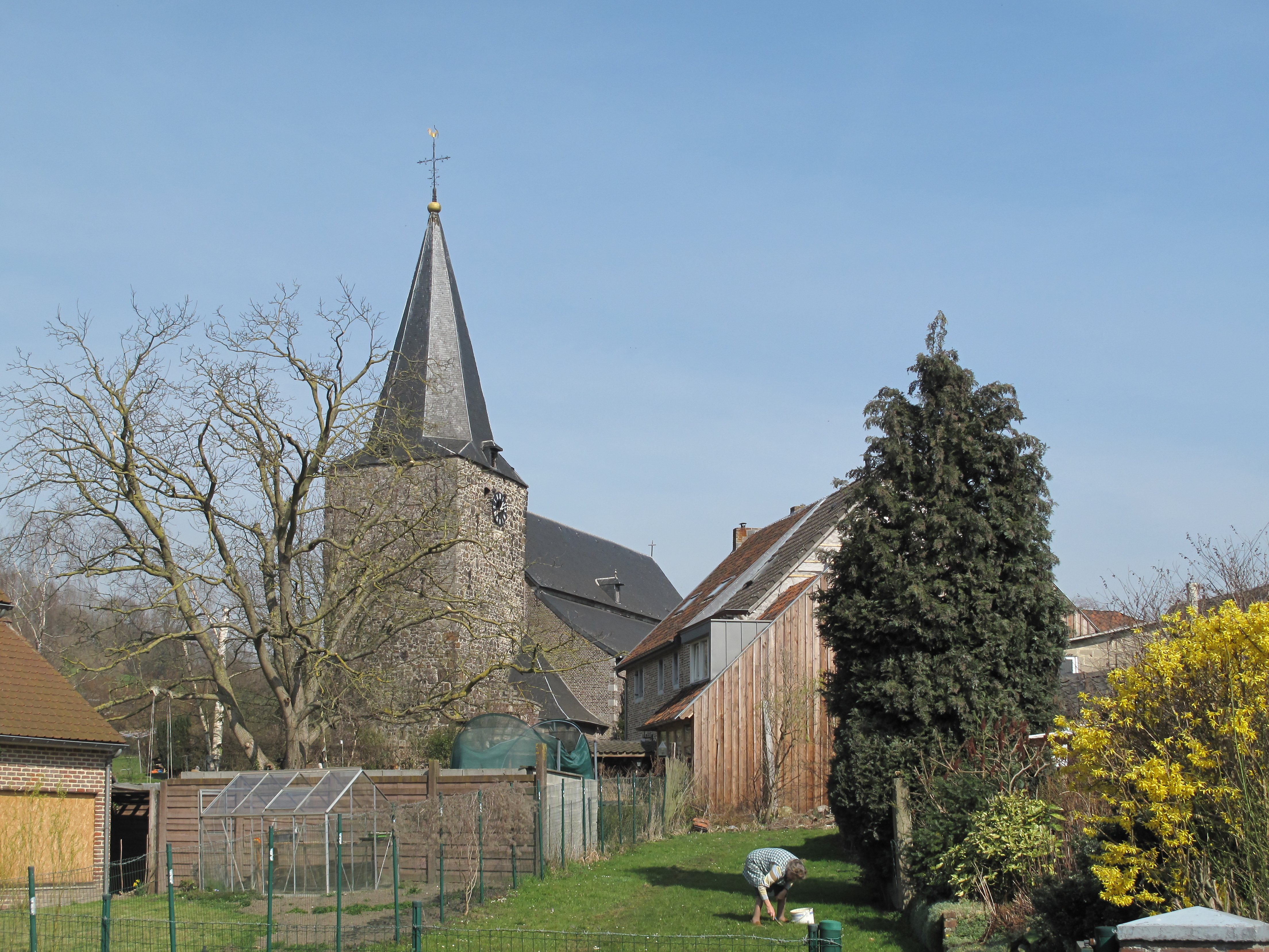 Sint Martens Voeren, church: Sint Maartenskerk oeg37840